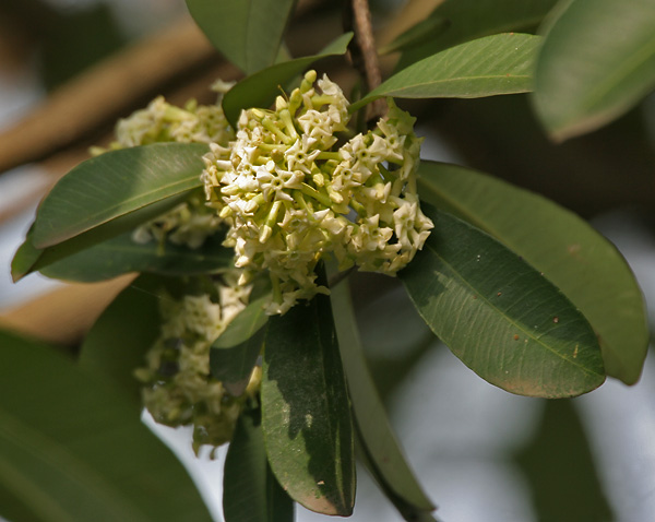 Saptaparni Alstonia scholaris in Kolkata, West Bengal, India.